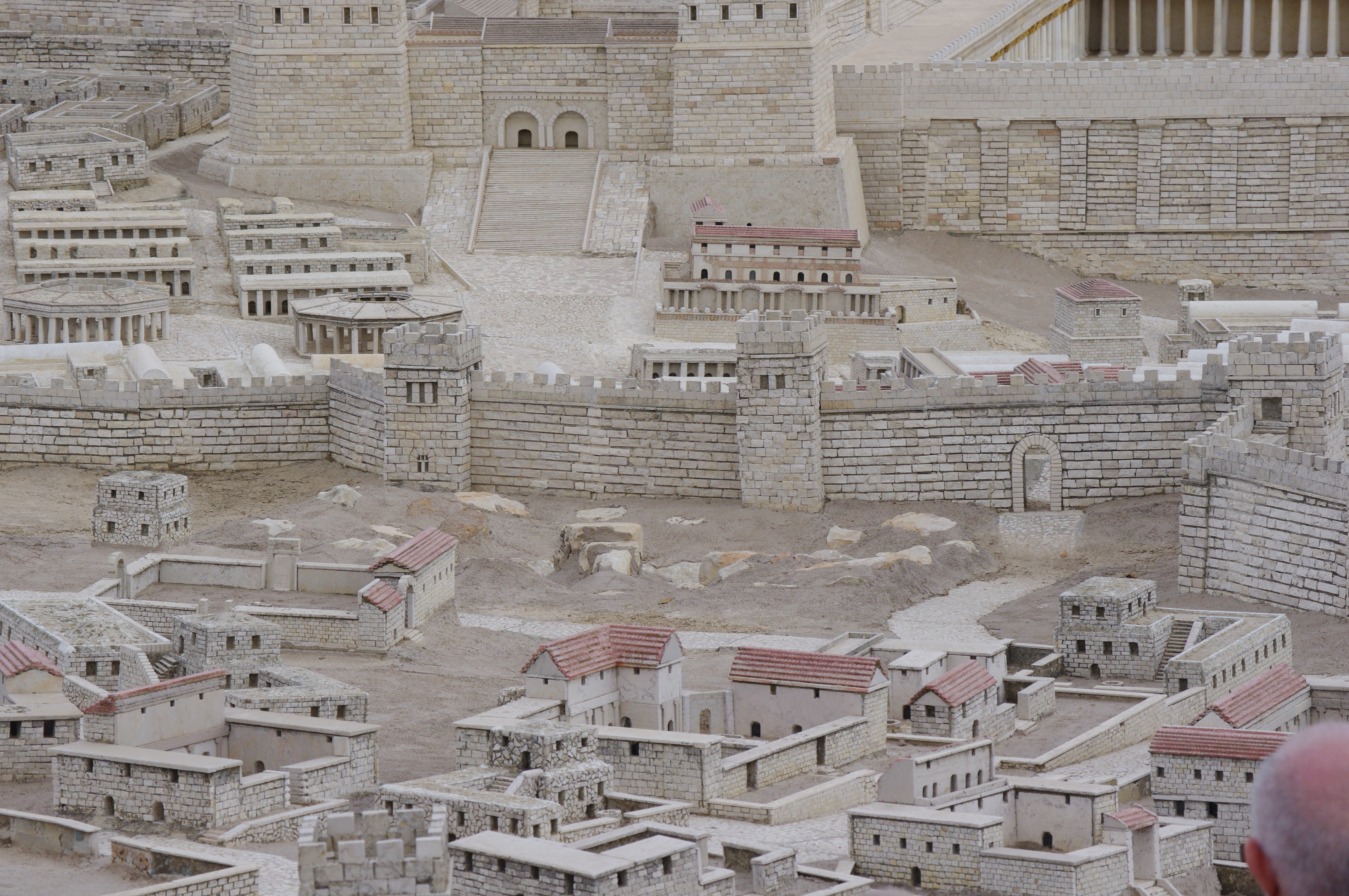 Location of Golgotha ​​on the model of Jerusalem of the II Temple period. Israel Museum, Jerusalem